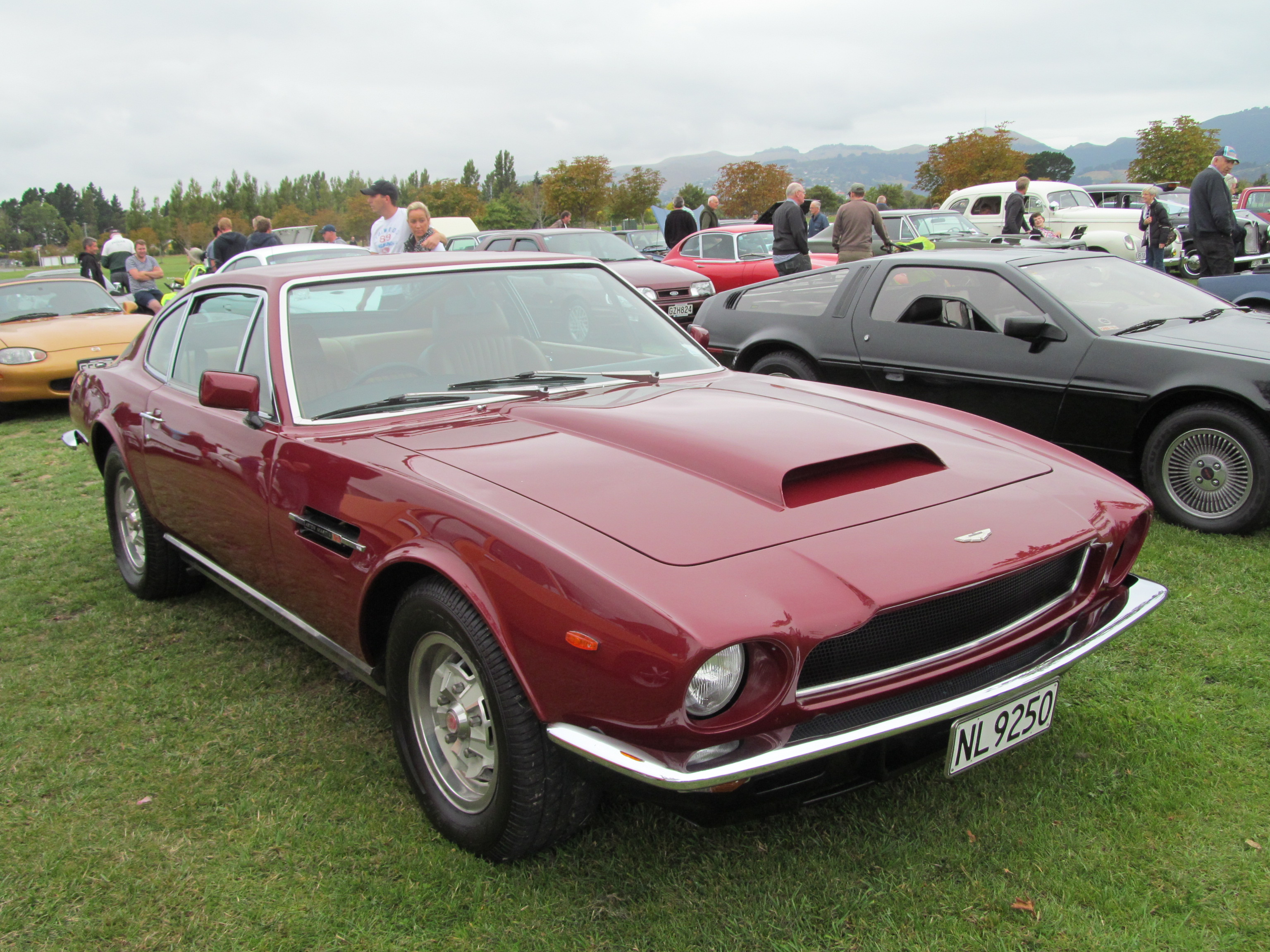 This DBS is an exceptionally rare vehicle in NZ itself before you even consider the fact it was sold new here in 1975, to someone with deeeeeep pockets, and appeared to have done a genuine 88k from new in 2010. It seems this very car is currently for sale at Christchurch dealership Euromarque for a cool $250k...